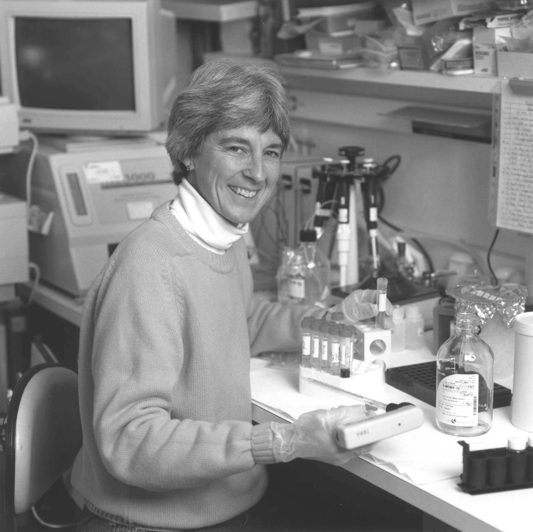 Title Roberts, Anita Description Portrait Topics/Categories National Cancer Institute, People Type B&W, Photo Source National Cancer Institute